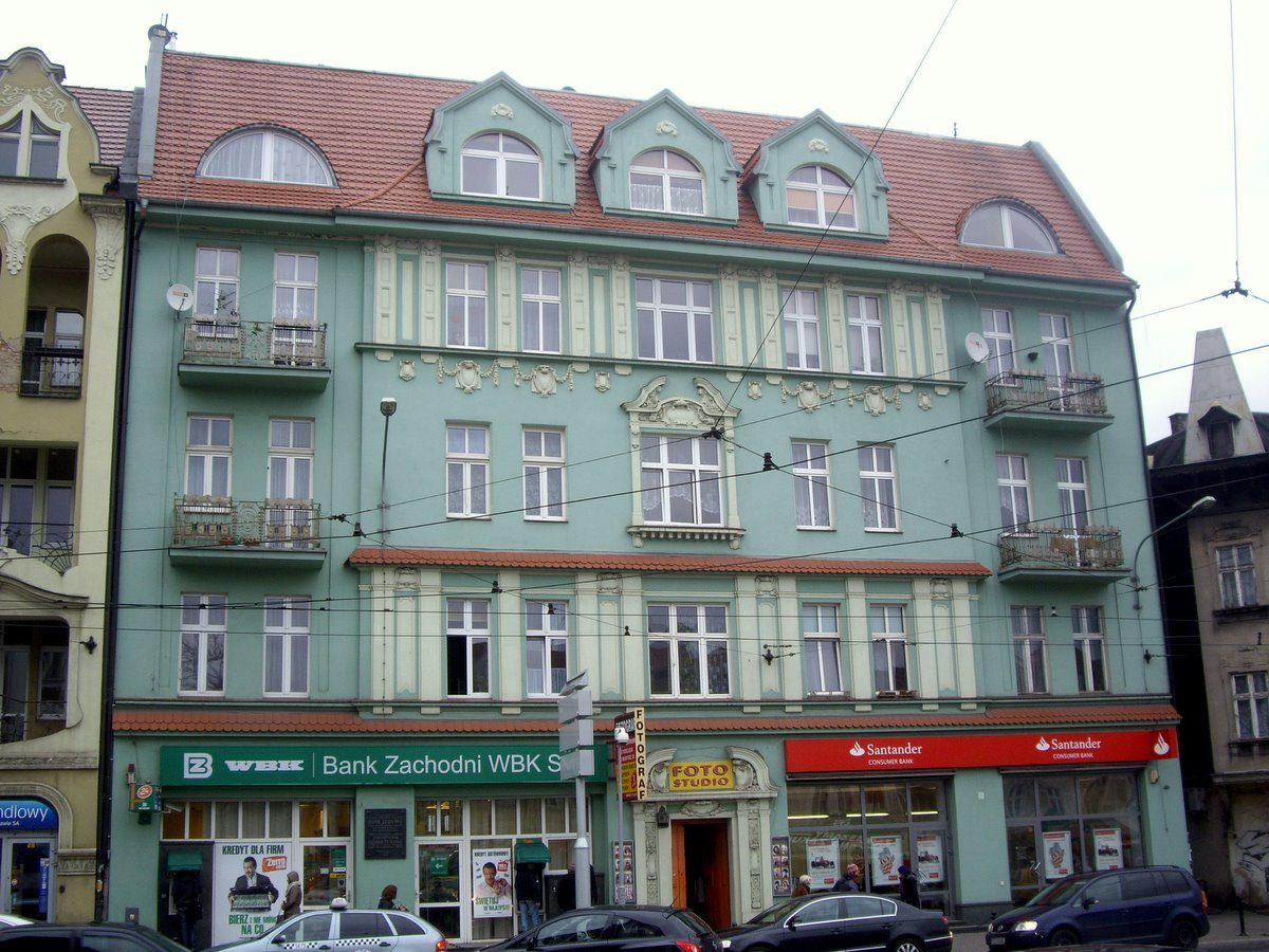 Dabrowskiego 53/55, Poznan, arch. Paul Pitt (1910)